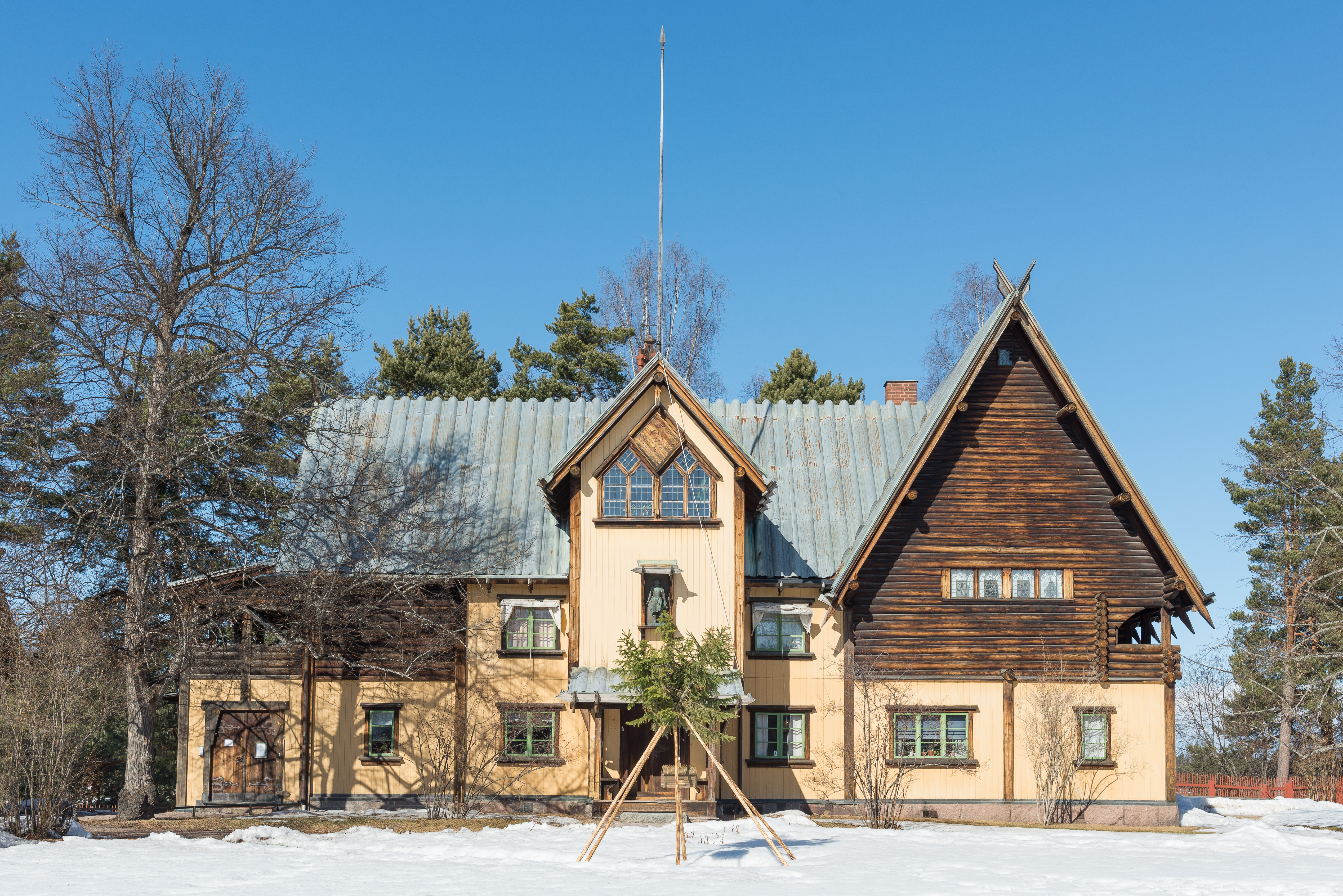 Zorngården in Mora, Sweden. Zorngården was the home of Anders and Emma Zorn. It is shown today as it was at the time of Emma Zorn's death in 1942.